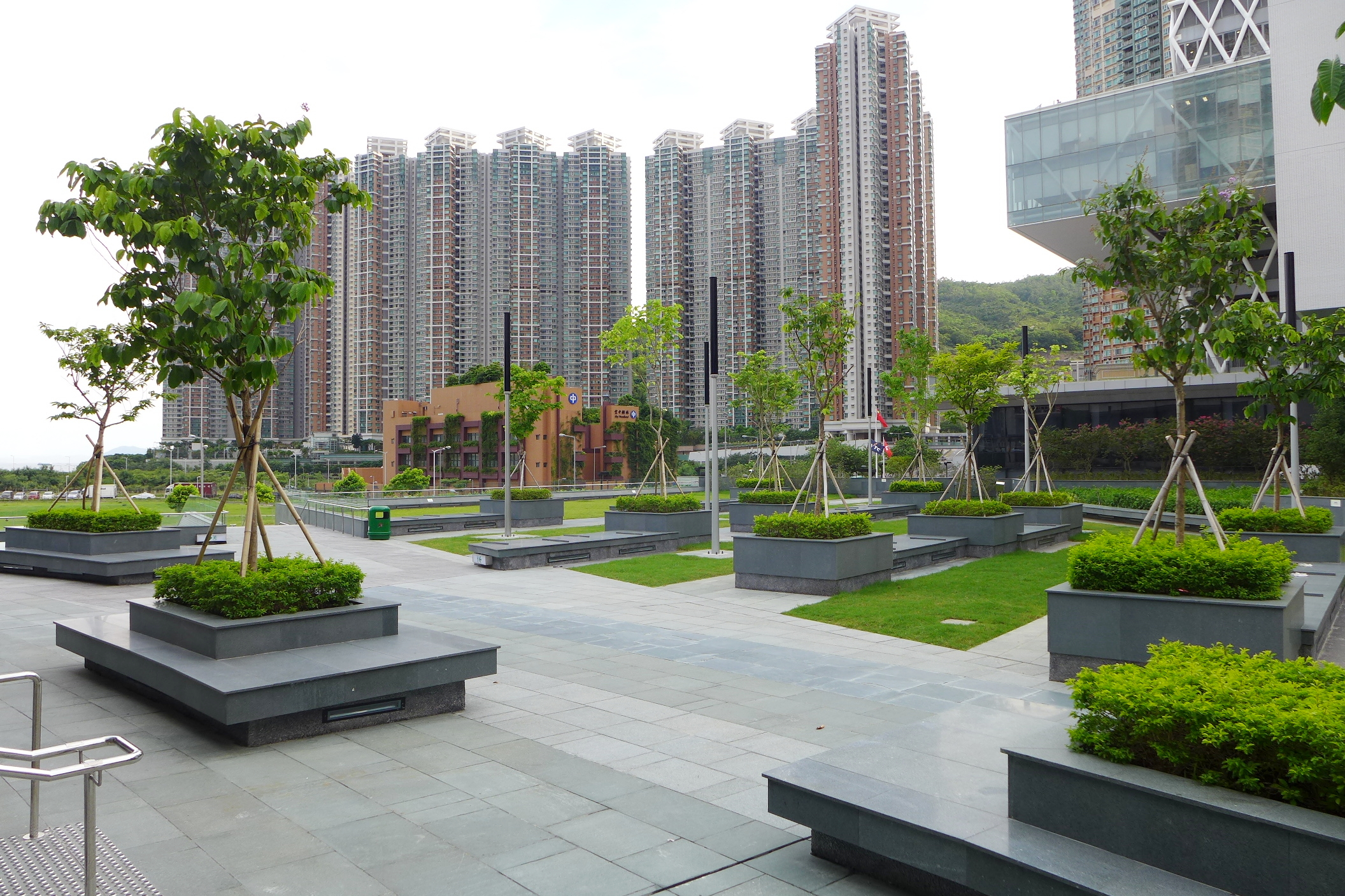 Tiu Keng Leng Sports Centre